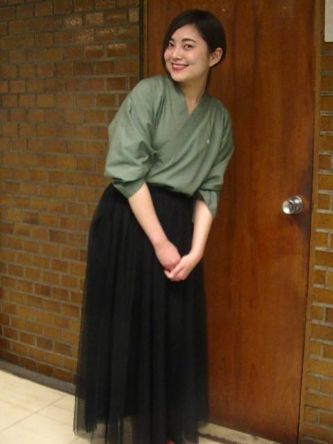 Mihotoke (comedian) 2020-01-30